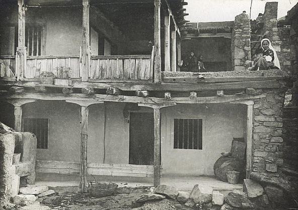 House in the village of Ai-Ceres, Crimea. The beginning of the XX century.